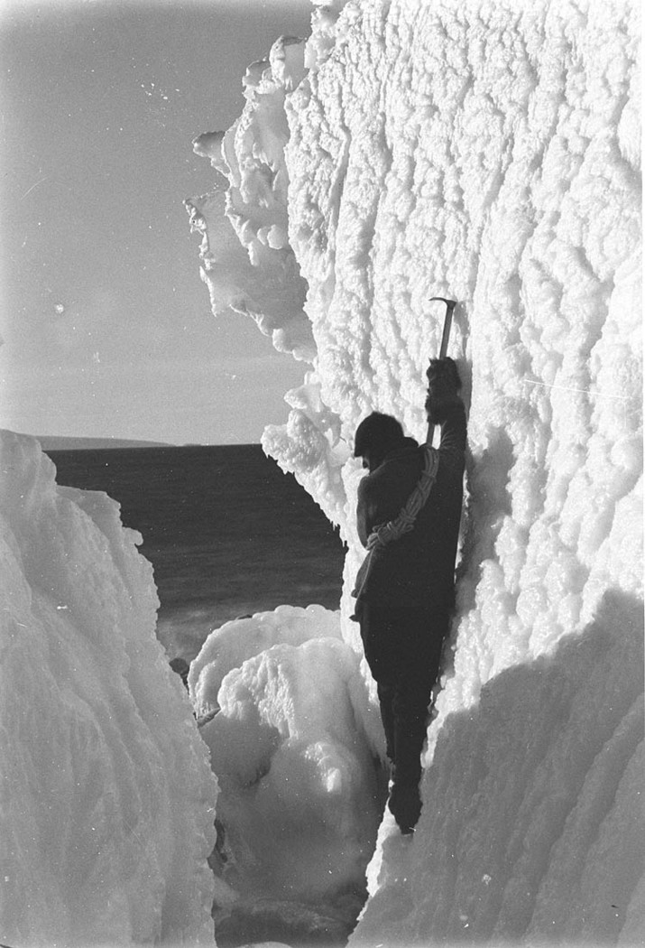 Xavier Mertz, in charge of the Greenland Dogs at the Main Base during the Australasian Antarctic Expedition, exploring the ice ravines near the expedition's main base at Cape Denison.